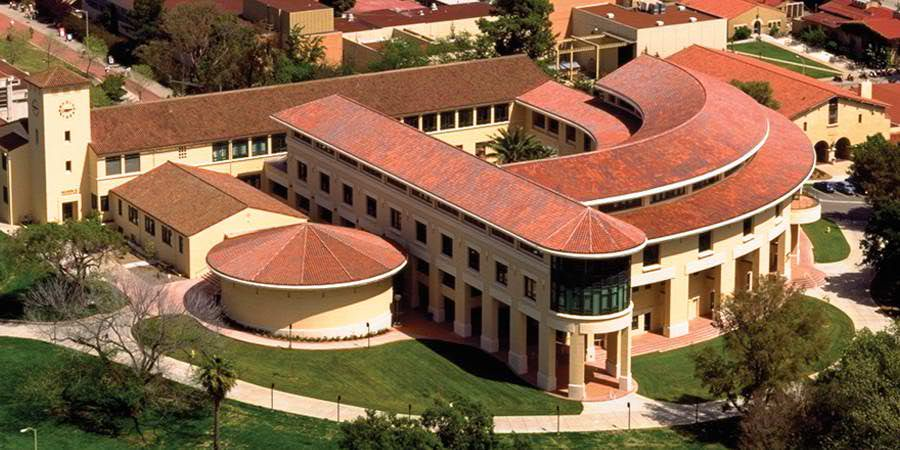 Aerial view of the Orfalea College of Business, and the California Polytechnic State University—Cal Poly SLO campus. Located in San Luis Obispo, California.